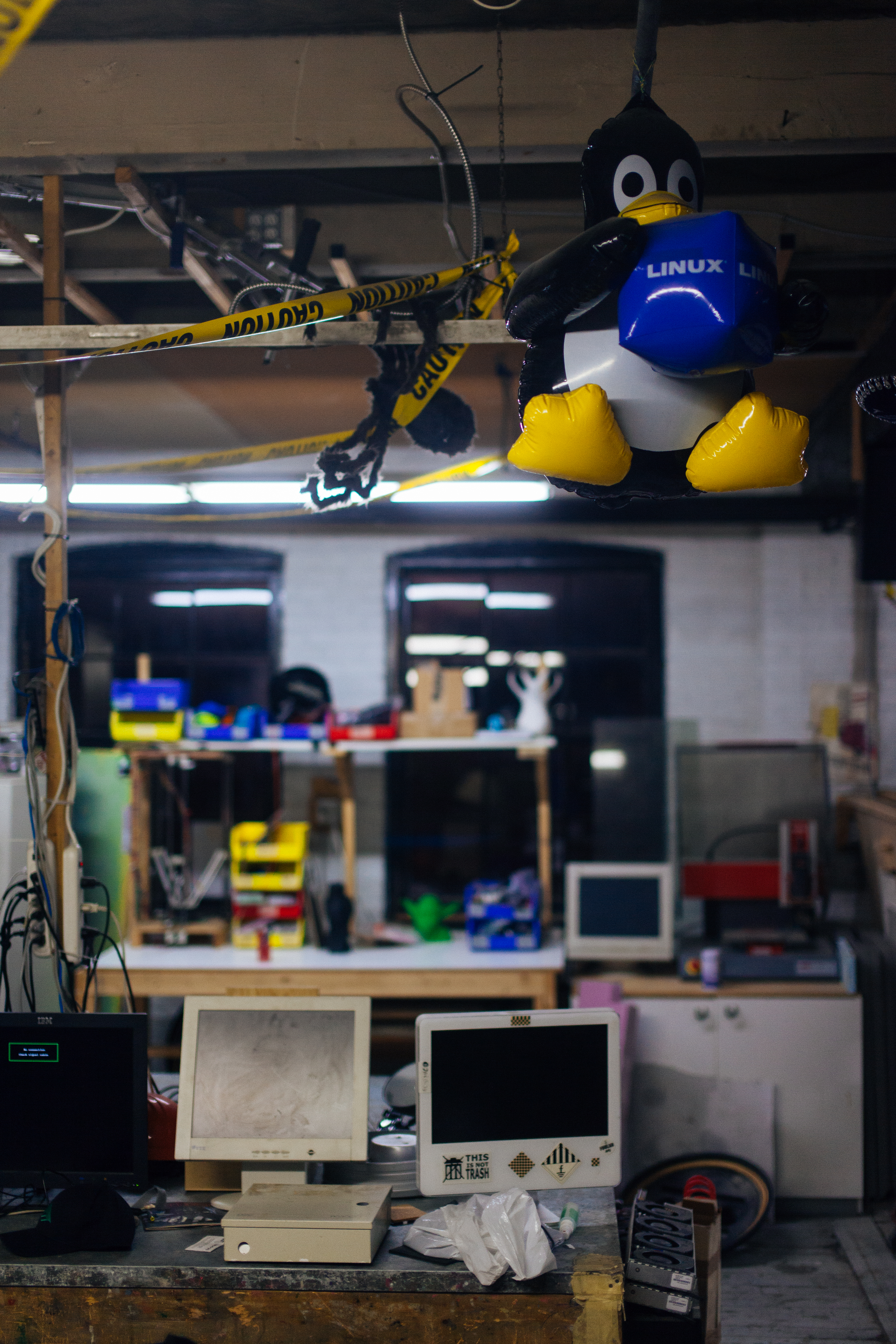 Shows a Canadian Hackerspace, complete with free software and hardware